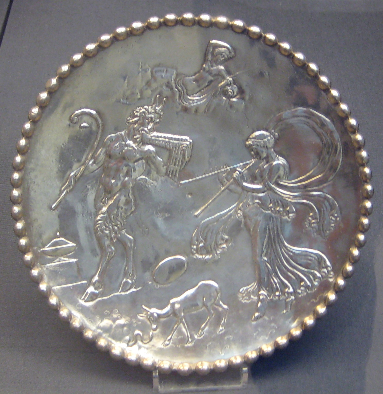 One of a pair of silver dishes from the Mildenhall Treasure; decorated with figures of Pan, a nymph and other mythological creatures, all in relief; ring foot on underside; inscribed 'EVATTPLOY' on the base.